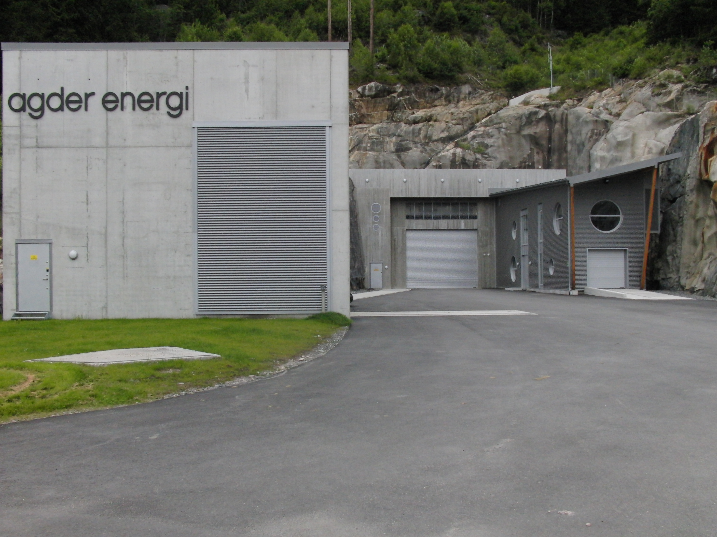 Iveland 2 kraftverk